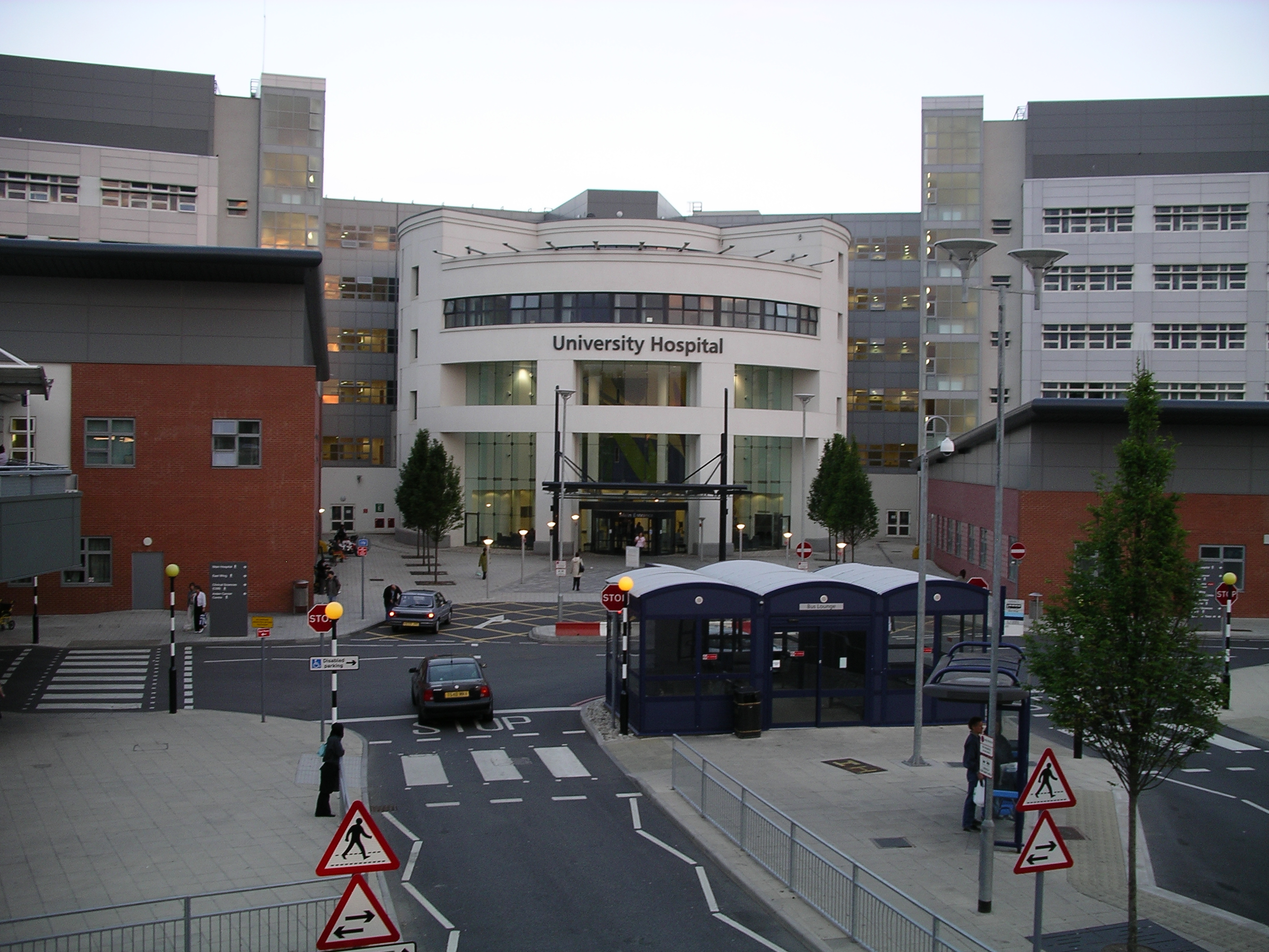 University Hospital Coventry, Walsgrave, Coventry, West Midlands, England.